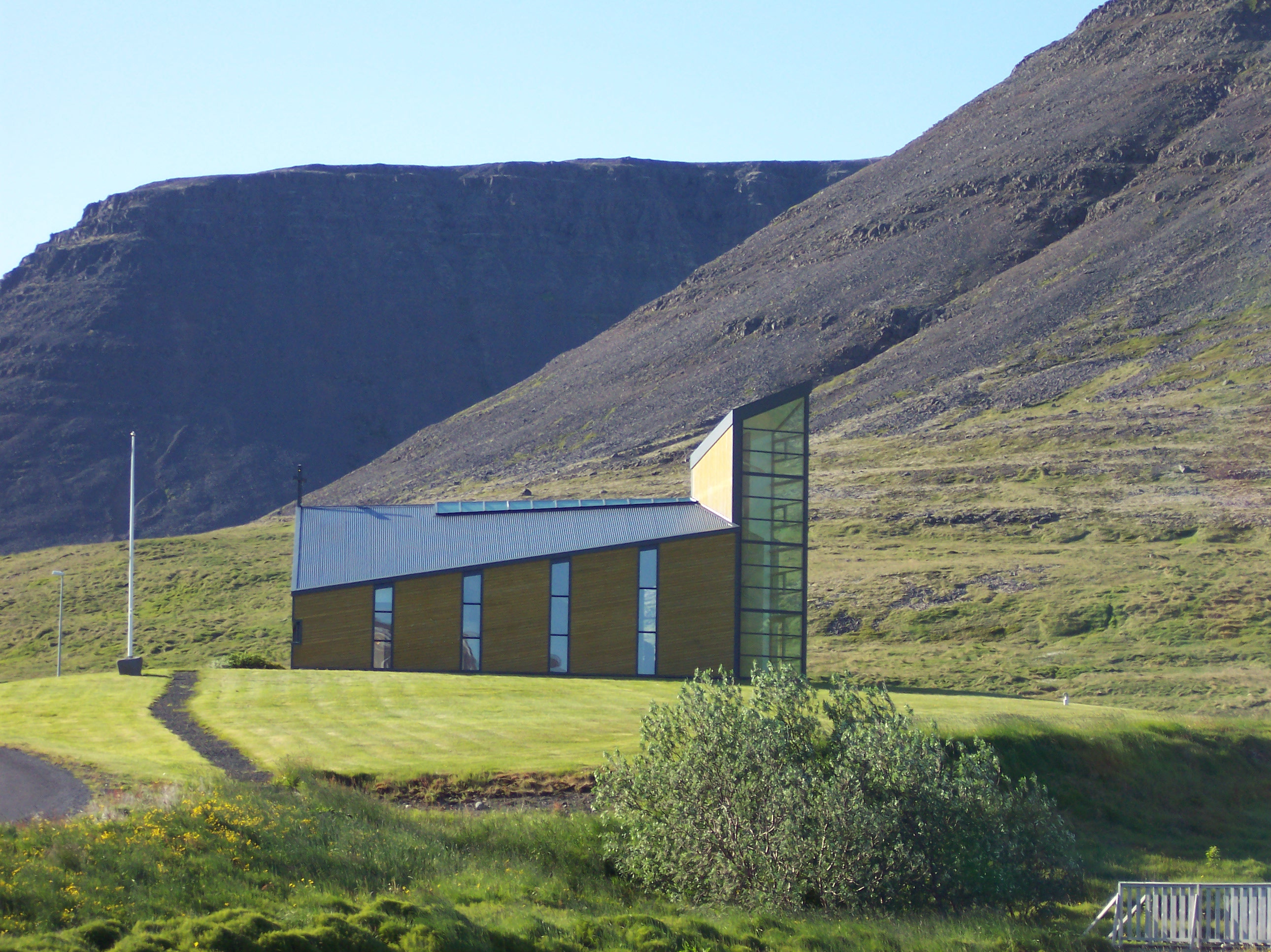 The church at Tálknafjörður, Tálknafjarðarhreppur, Iceland